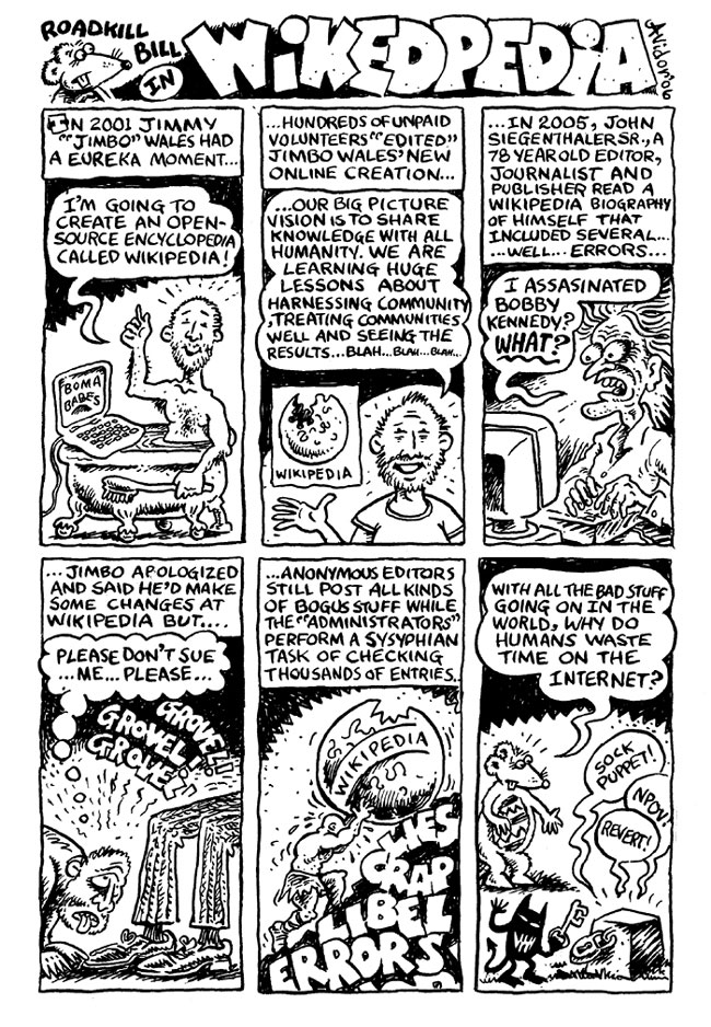 Roadkill Bill comic about Wikipedia